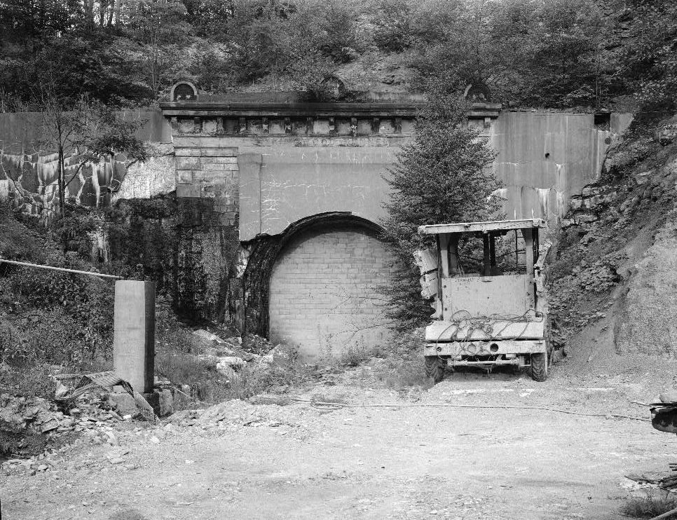 The closed-up west portal of the Kingwood Tunnel, near Tunnelton, West Virginia, USA